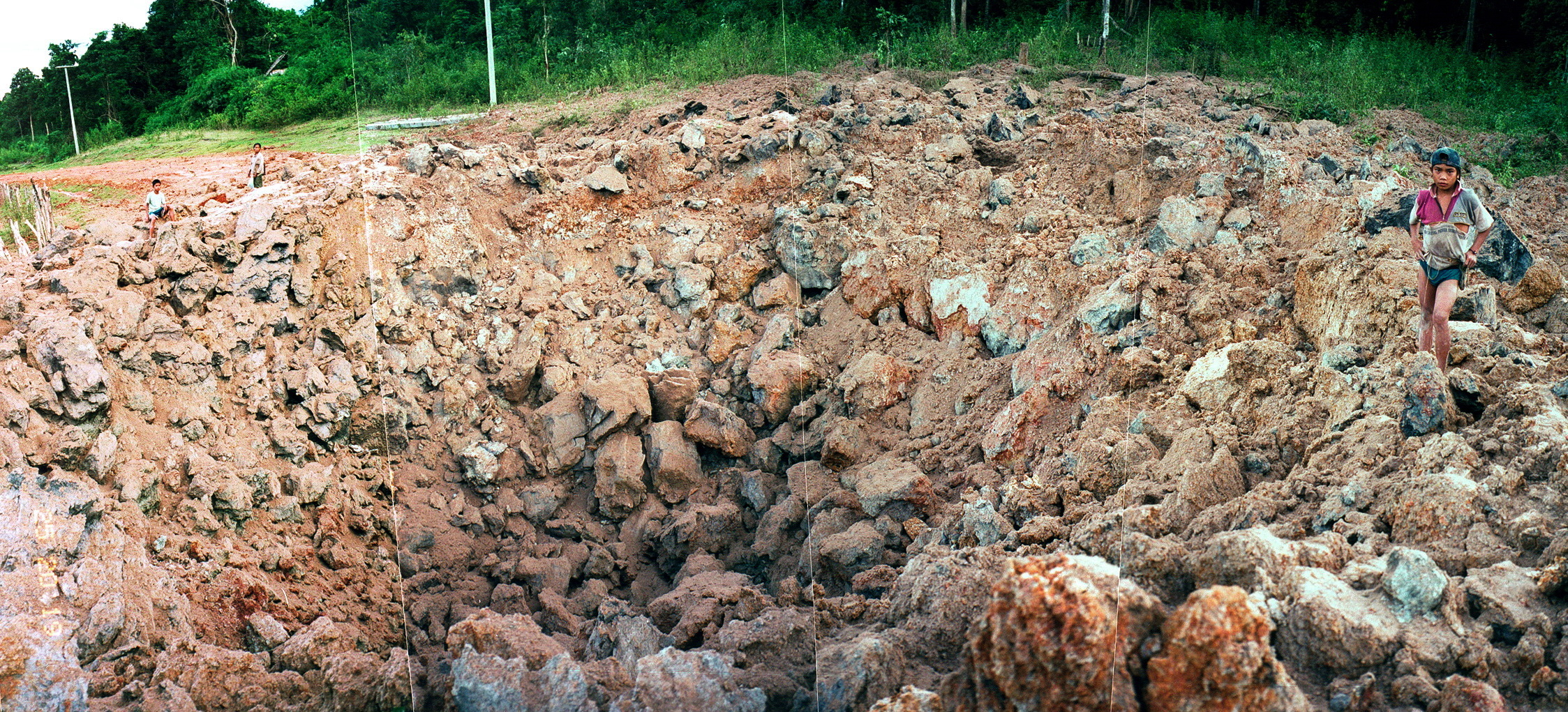 Bomb crater left after a circa 1000 lb (0.4 tonne) US Air Force UXO exploded without warning, north of Xépôn, Laos. The bomb had penetrated and become buried in soft ground beneath the center of a local access road, midway between two about villages 500 metres (550 yd) apart. There were no injuries.